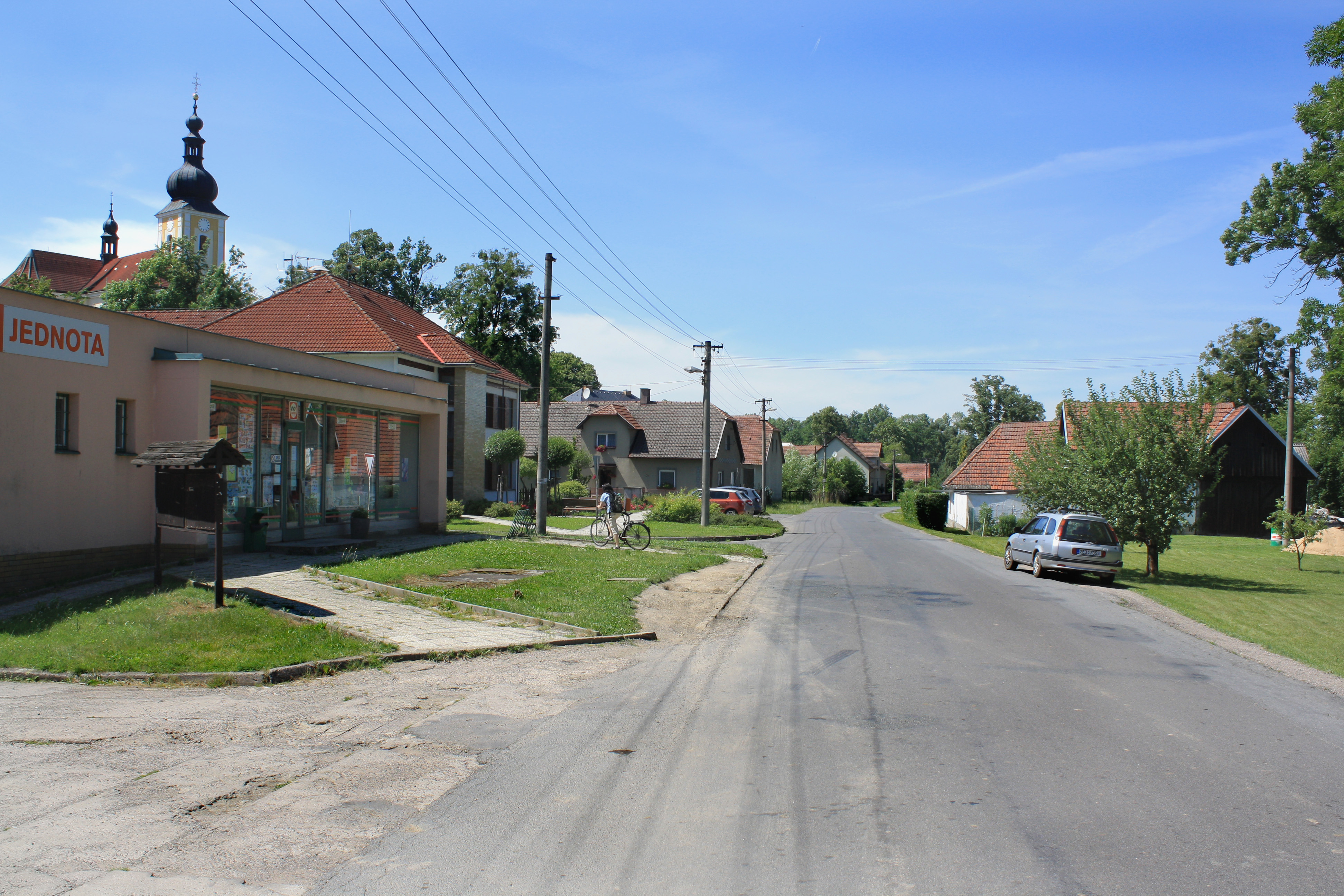 General store in Čistá, Czech Republic